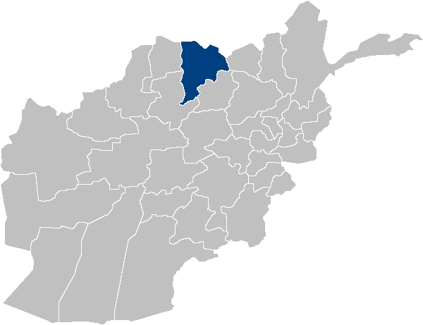 Location map for Balkh Province in Afghanistan. Original map source: Image:Afghanistan_provinces_blank.png